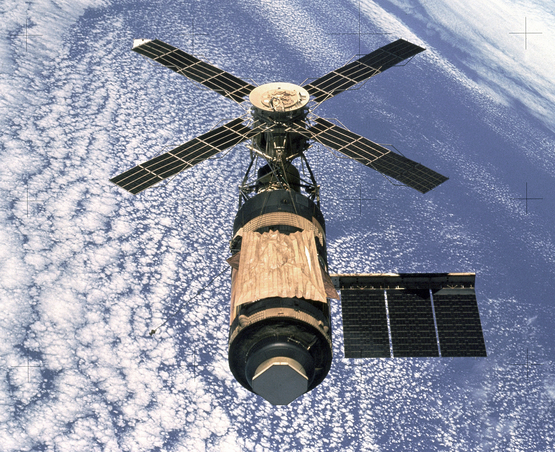 An overhead view of the Skylab Orbital Workshop in Earth orbit as photographed from the Skylab 4 Command and Service Modules (CSM) during the final fly-around by the CSM before returning home. The space station is contrasted against the pale blue Earth. During launch on May 14, 1973, some 63 seconds into flight, the micrometeor shield on the Orbital Workshop (OWS) experienced a failure that caused it to be caught up in the supersonic air flow during ascent. This ripped the shield from the OWS and damaged the tie downs that secured one of the solar array systems. Complete loss of one of the solar arrays happened at 593 seconds when the exhaust plume from the S-II's separation rockets impacted the partially deployed solar array system. Without the micrometeoroid shield that was to protect against solar heating as well, temperatures inside the OWS rose to 126 degrees Fahrenheit (52 degrees Celsius). The gold "parasol" clearly visible in the photo, was designed to replace the missing micrometeoroid shield, protecting the workshop against solar heating. The replacement solar shield was deployed by the Skylab I crew. This enabled the Skylab Orbital Workshop to fulfill all its mission objects serving as home to additional crews before being deorbited in 1978.